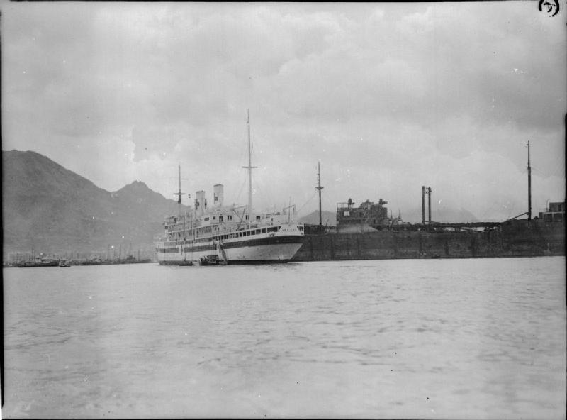 Hmhs Maine Docked. Note: RFA Maine (1924), built 1925 as Leonardo da Vinci, was an Italian passenger ship captured at Massawa in 1941. Converted to Army Hospital Ship and renamed "Empire Clyde" and operated by the British Army during World War II, she was transferred to the Royal Navy in 1945. Renamed RFA Maine in 1948, she served in the Korean War and was scrapped in 1954.